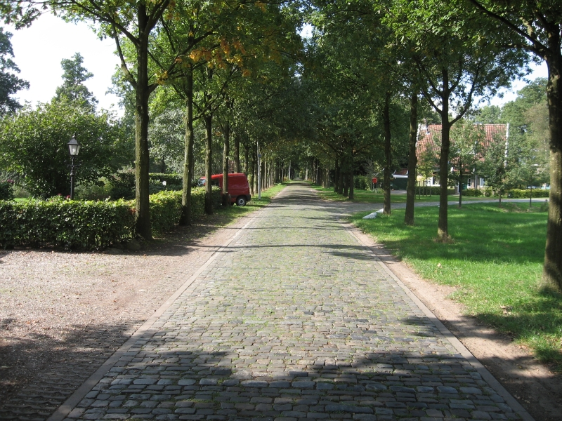 Road in Oele, near Hengelo, Overijssel, The Netherlands